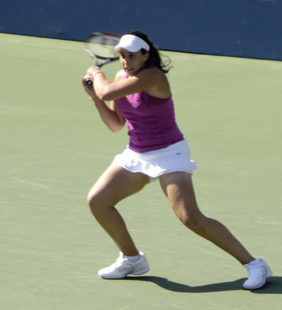 Marion Bartoli at the 2009 US Open